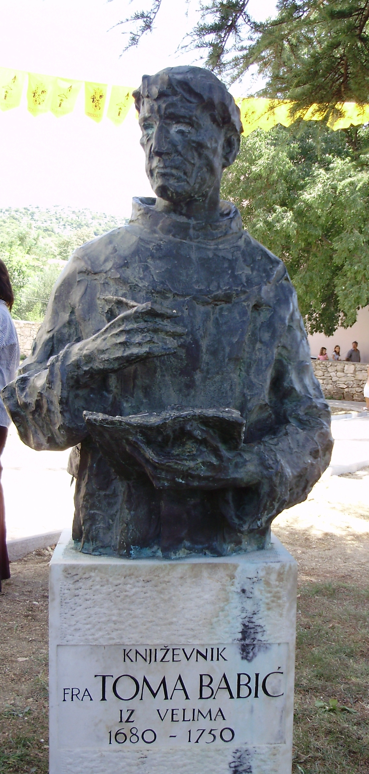 Spomenik Fra Tomi Babiću ispred crkve u Stankvcima, postavljen 1983.